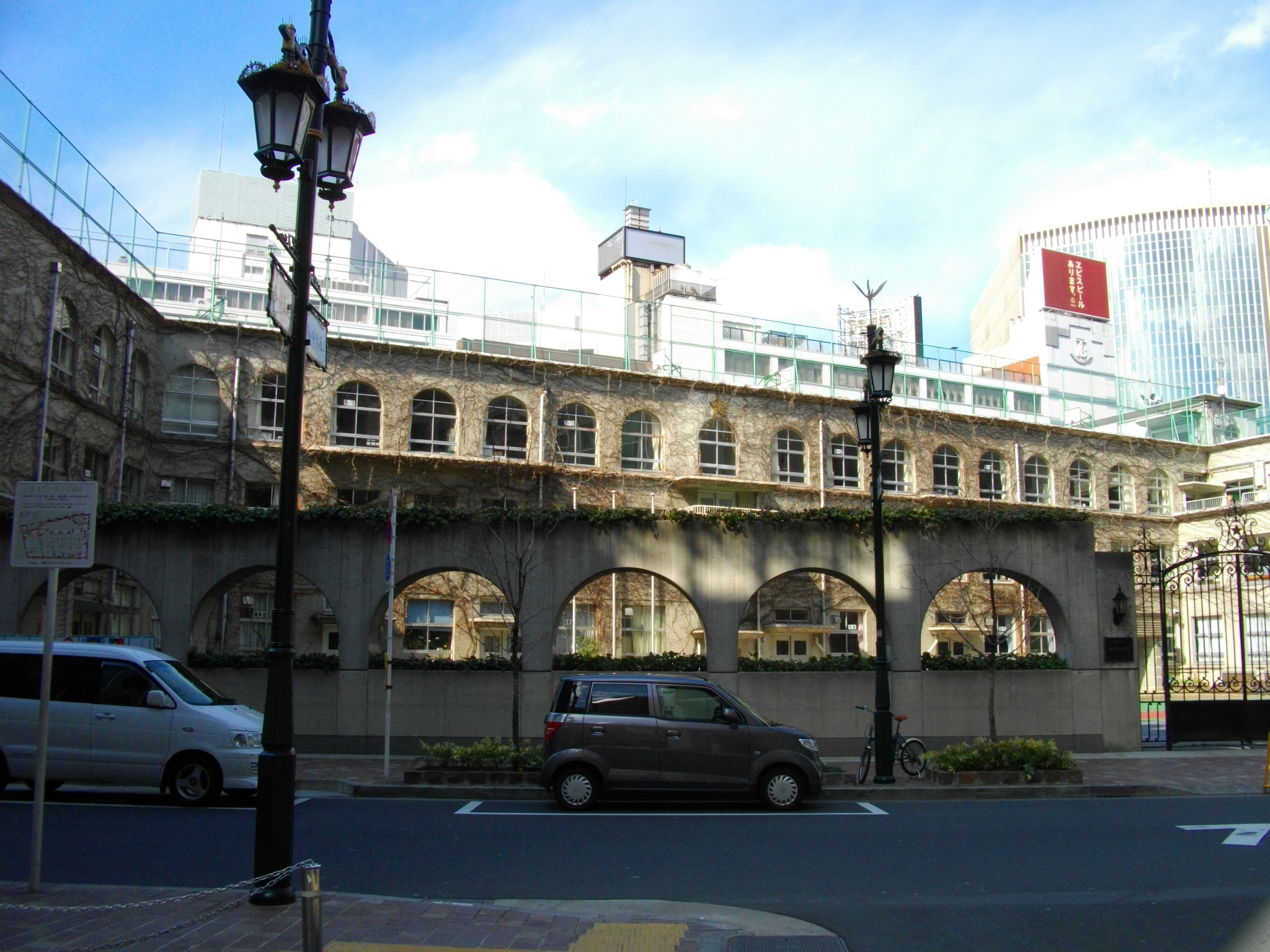 Chuo Municipal Taimei Elementary School in Tokyo, Japan